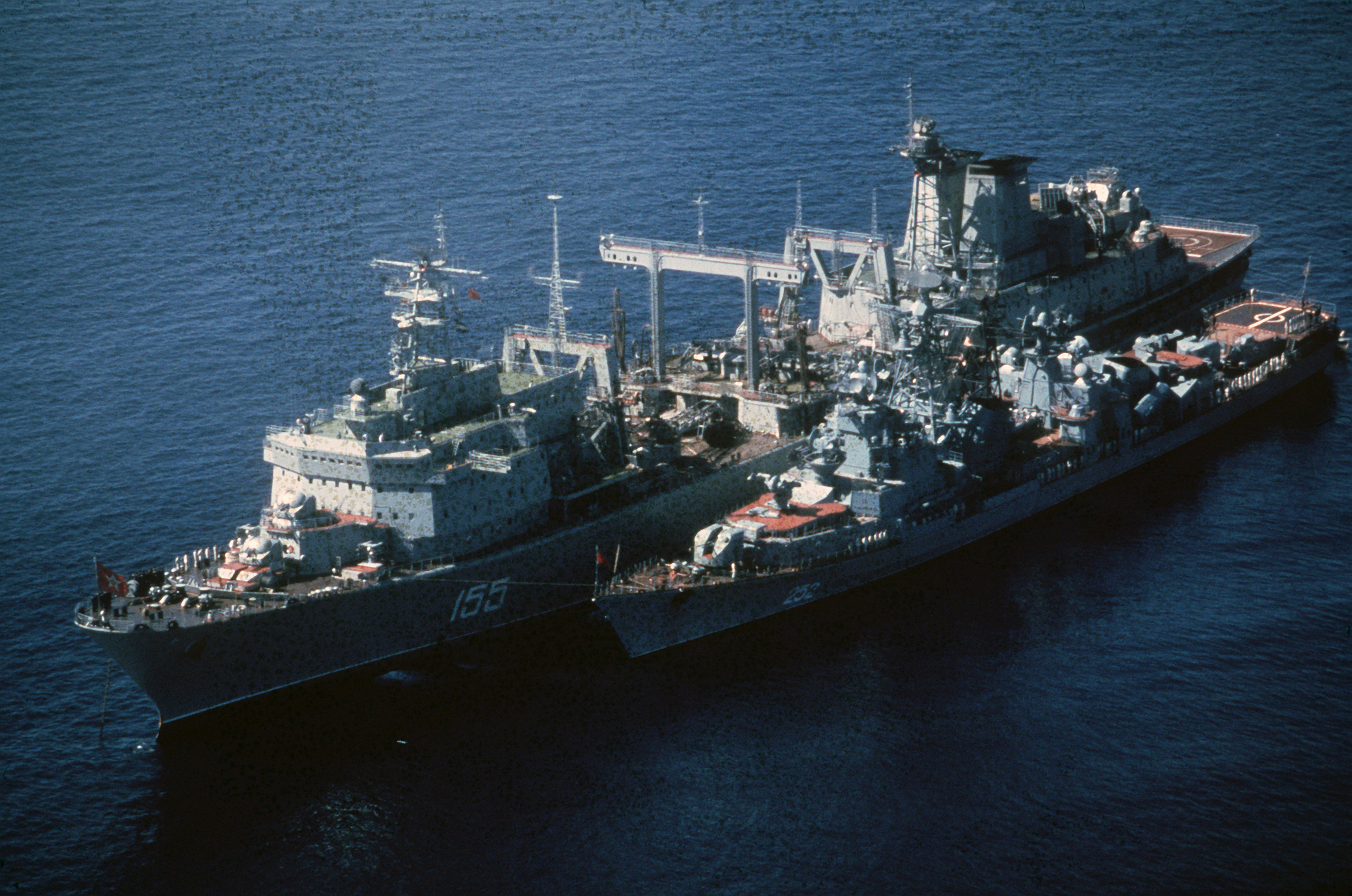 A port bow view of the Soviet replenishment oiler BEREZINA with a Mod Kashin class guided missile destroyer alongside during a replenishment operation.